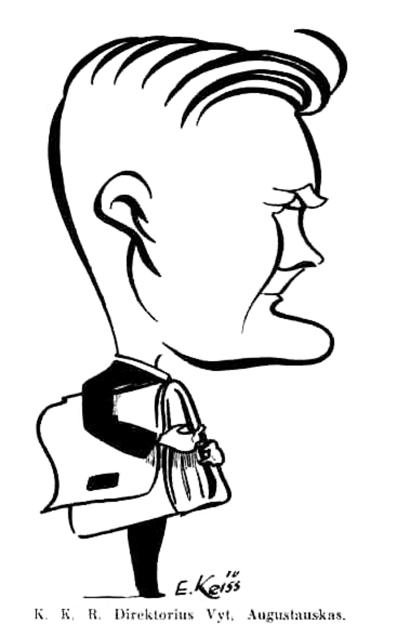 Vytautas Augustauskas - director of Lithuanian Palace of Physical Culture. Drawing by E.Keišs from Lithuanian sports magazine "Kūno kultūra ir sveikata" 1934, No.38.